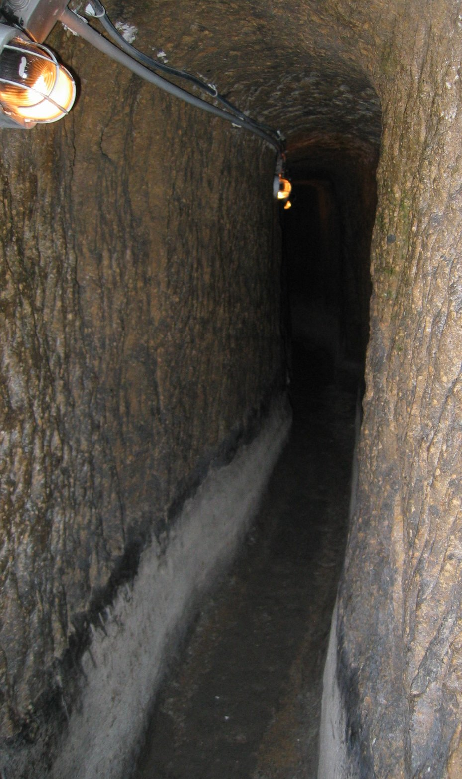 Passageway carved through tuff under Naples, previously a water channel and now part of a tourist attraction. The white deposits on the lower walls show the typical water level.